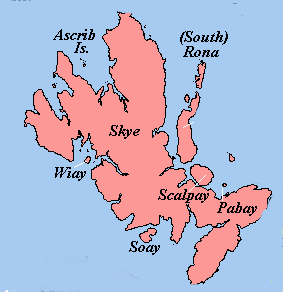 originally from the following wikipedia image, which had been distributed under the GNU free distribution licence, I have modified it so to only show the isle of skye, likewise I release this under the GNU free distribution